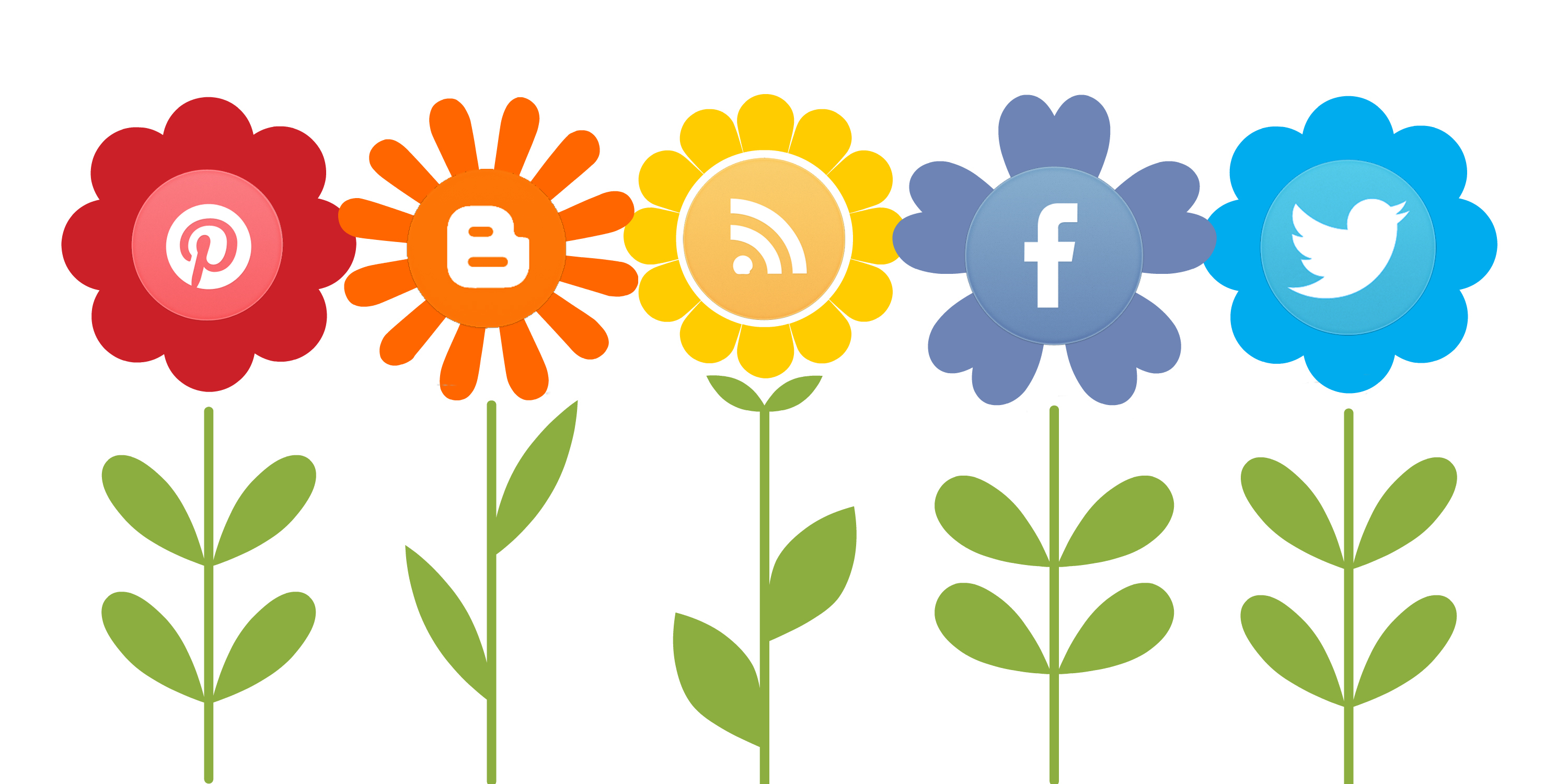 The use of social media interaction allows brands to receive both positive and negative feedback from their customers as well as determining what media platforms work well for them and has become an increased advantage for brands and businesses. It is now common for consumers to post feedback online through social media sources, blogs and websites feedback on their experience with a product or brand. It has become increasingly popular for businesses to utilize and encourage these conversations through their social media channels to have direct contact with the customers and manage the feedback they receive appropriately.